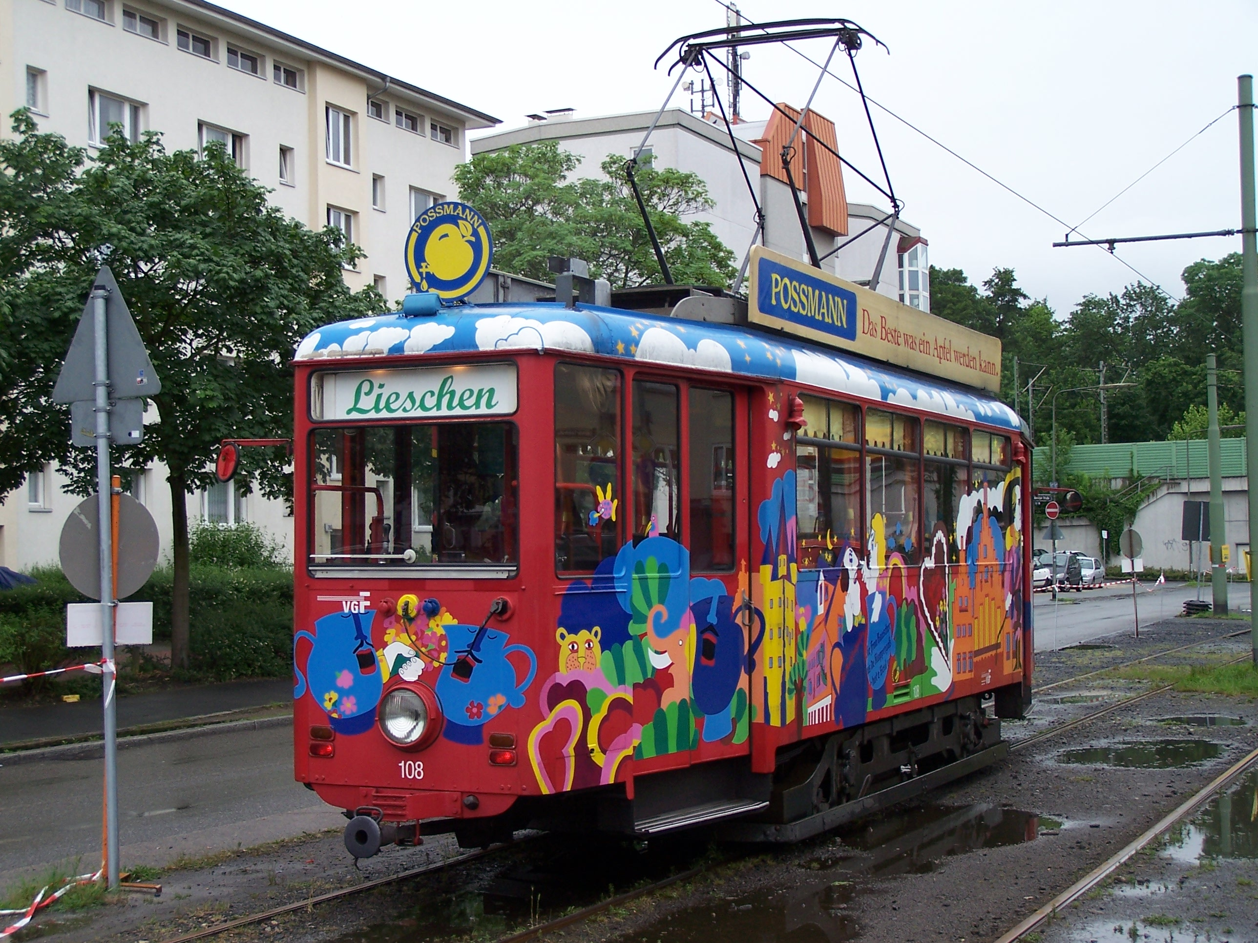 Tram type K of the Tramway Frankfurt am Main on the line "Lieschen" at stop Riedhof, May 2007